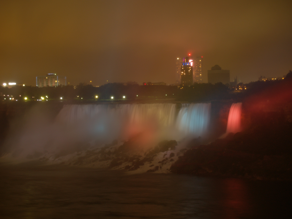 Bridal Veil falls at night